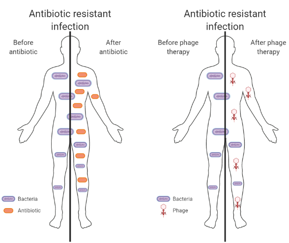 Phage therapy could be used against antibiotic resistance, the Acr-phage would inhibit the CRISPR immune system with the production of anti-CRISPR proteins and at the end of the phage reproduction, done by the bacteria, the bacteriophage would be realeased to the exterior due to the lysis of the cell.